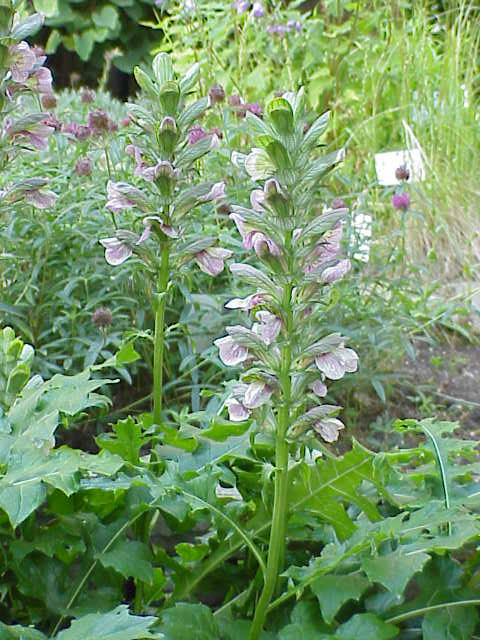 Species: Acanthus hungaricus Family: Acanthaceae Image No. 2